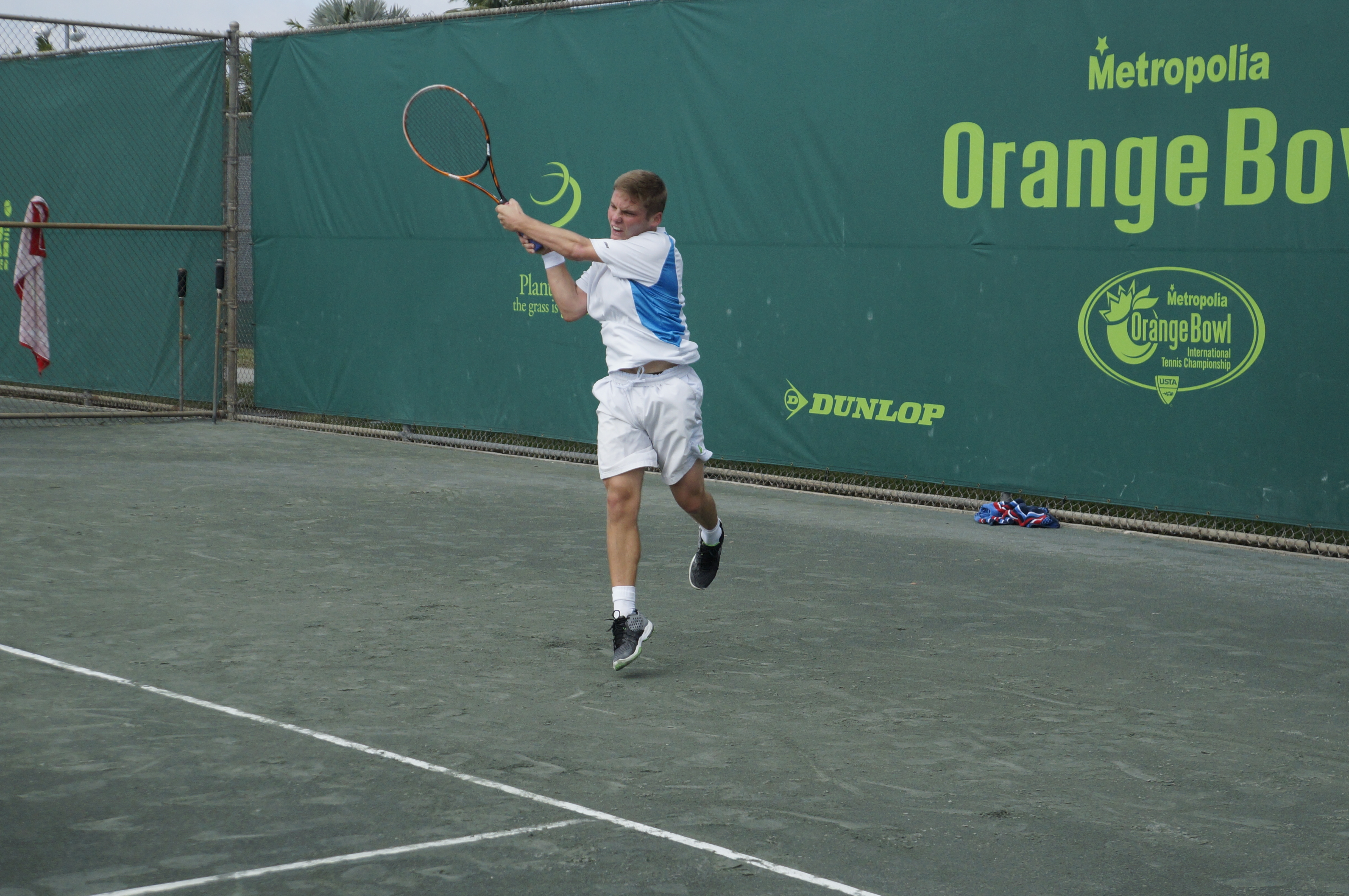 Junior boys contestant returns a backhand at the 2014 Junior Orange Bowl tennis championship, junior tennis' most prestigious event.